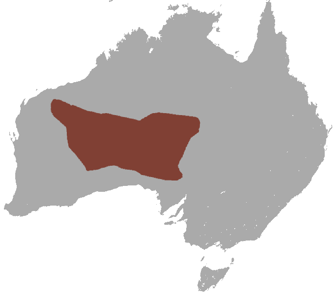 Ooldea Dunnart (Sminthopsis ooldea) range